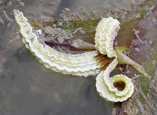 The female flower in full bloom. The white petals fall off the day after blooming.